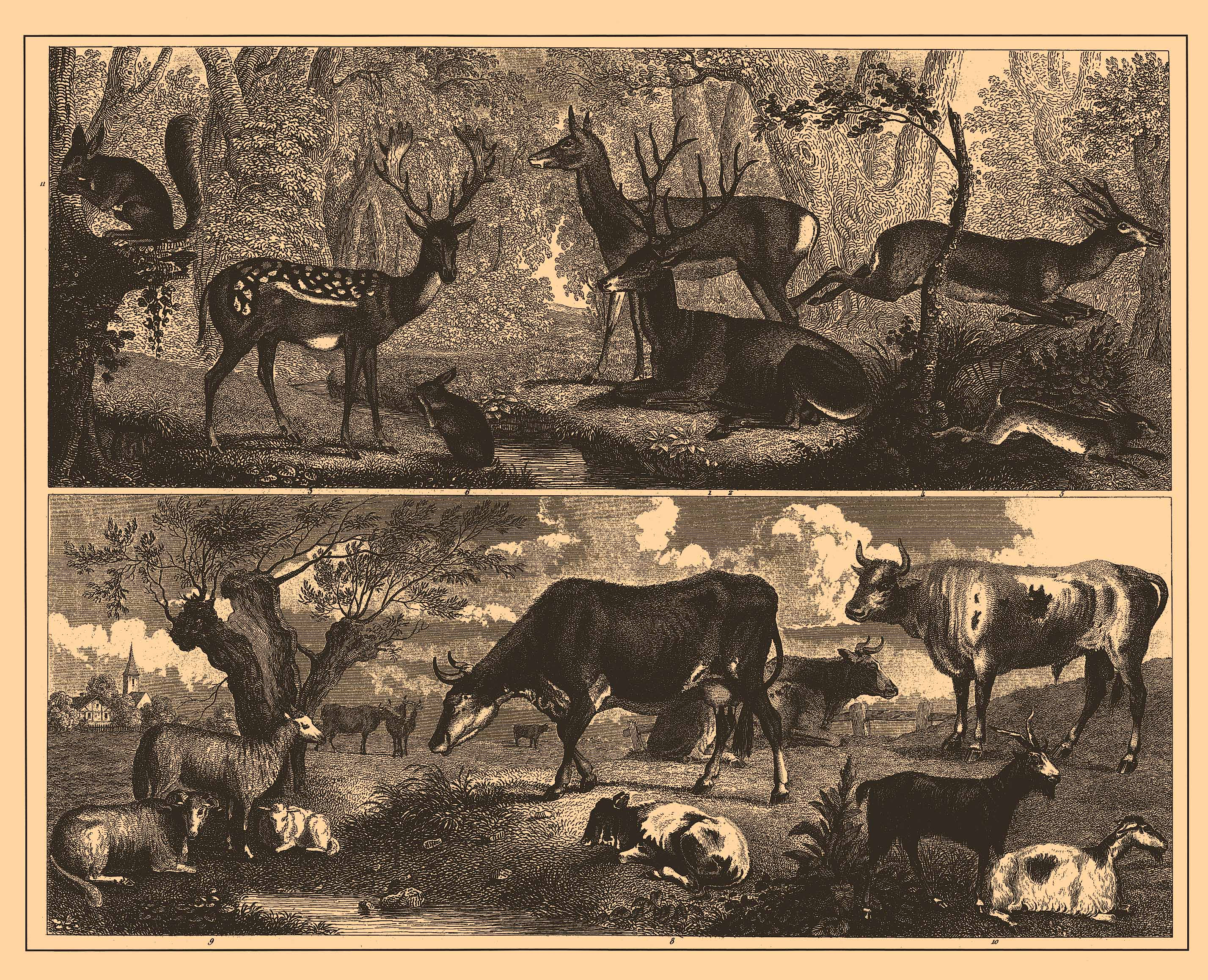 Illustration from Brockhaus and Efron Encyclopedic Dictionary (1890—1907)